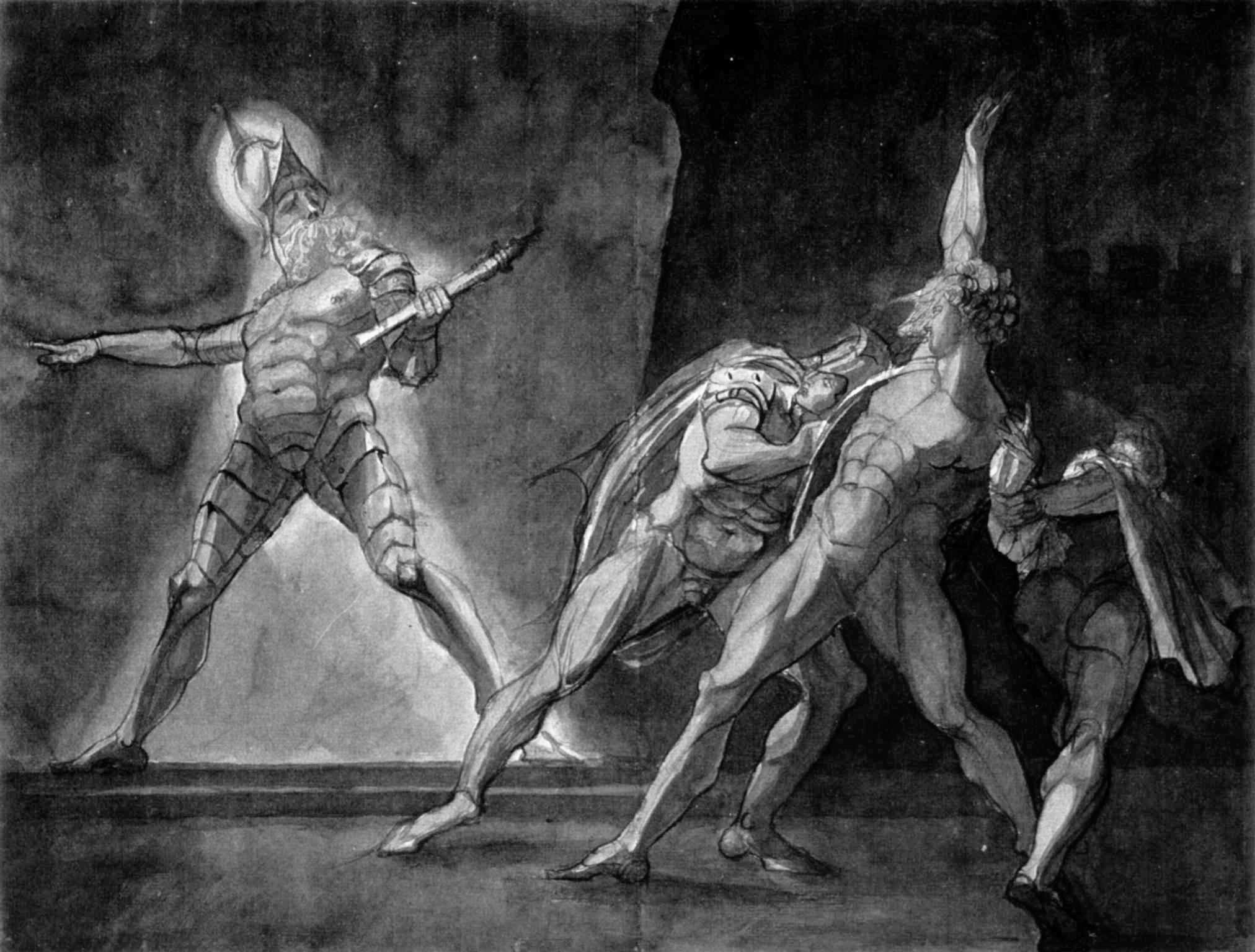 Henry Fuseli - Hamlet and his father's Ghost (1780-1785, ink and pencil on cardboard, 38 × 49,5 cm)